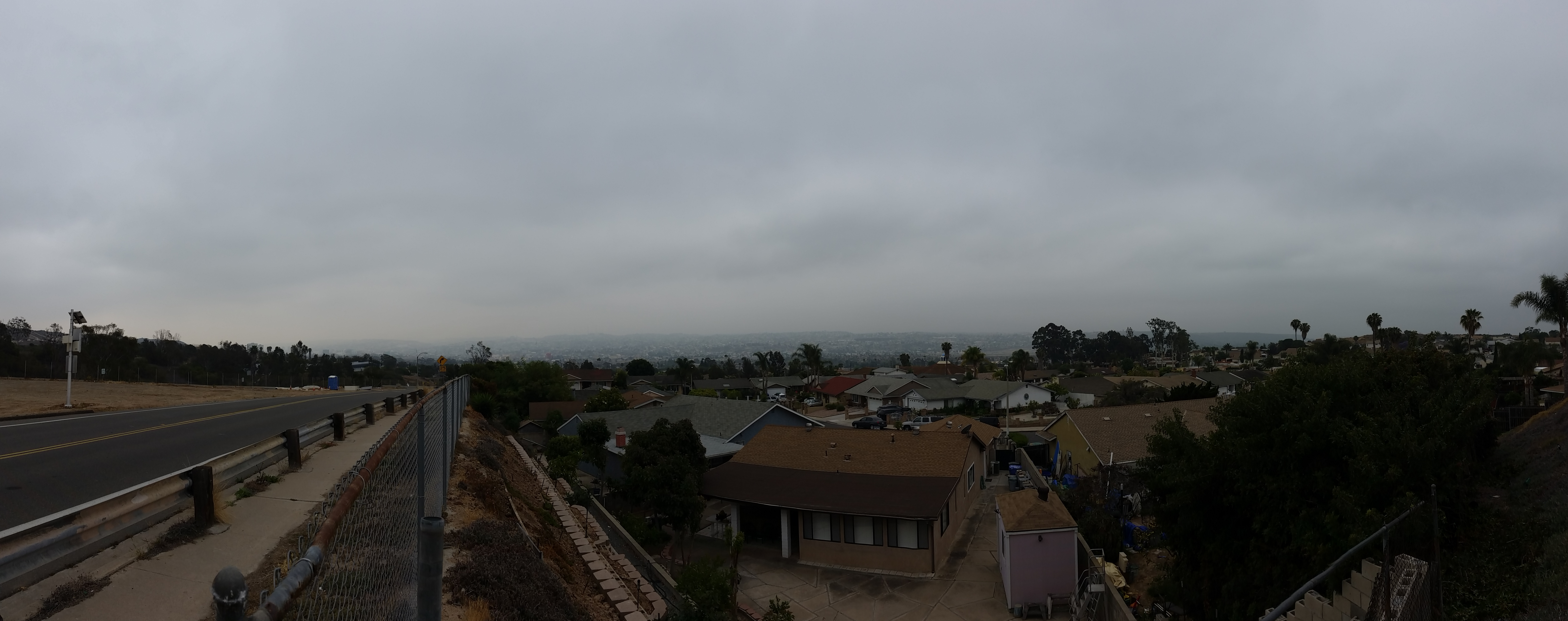 A panoramic photograph of Tijuana as seen from San Ysidro, San Diego